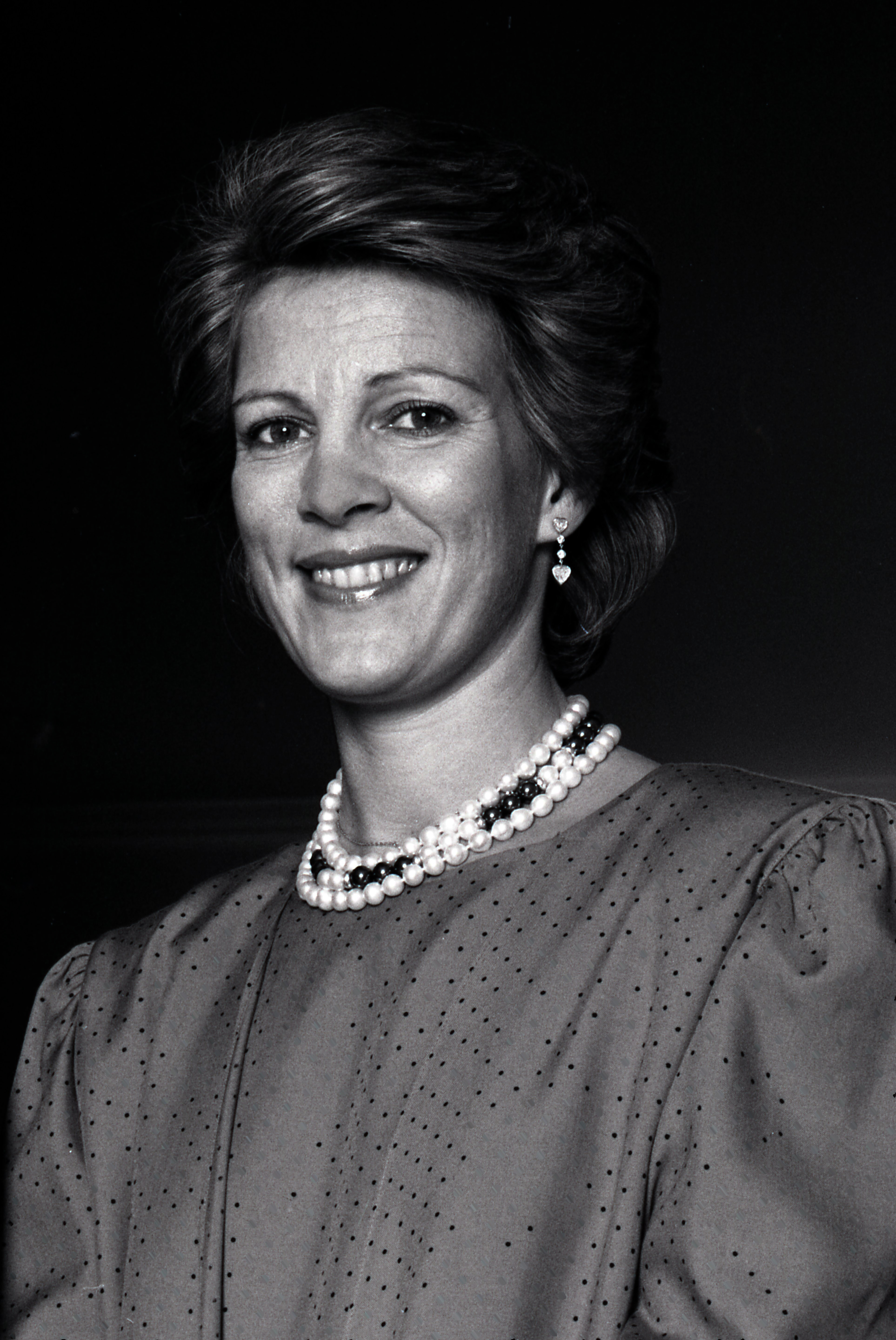 Queen Anne-Marie of Greece